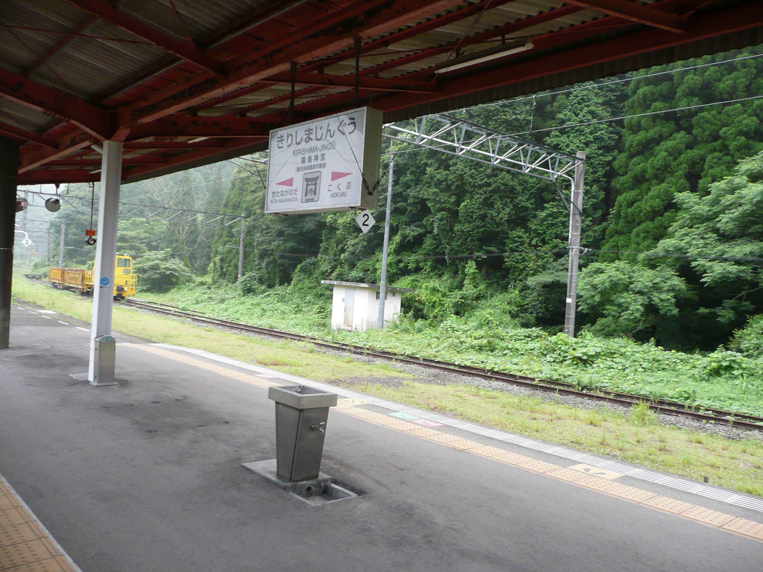 Kirishima-Jingu Station platform